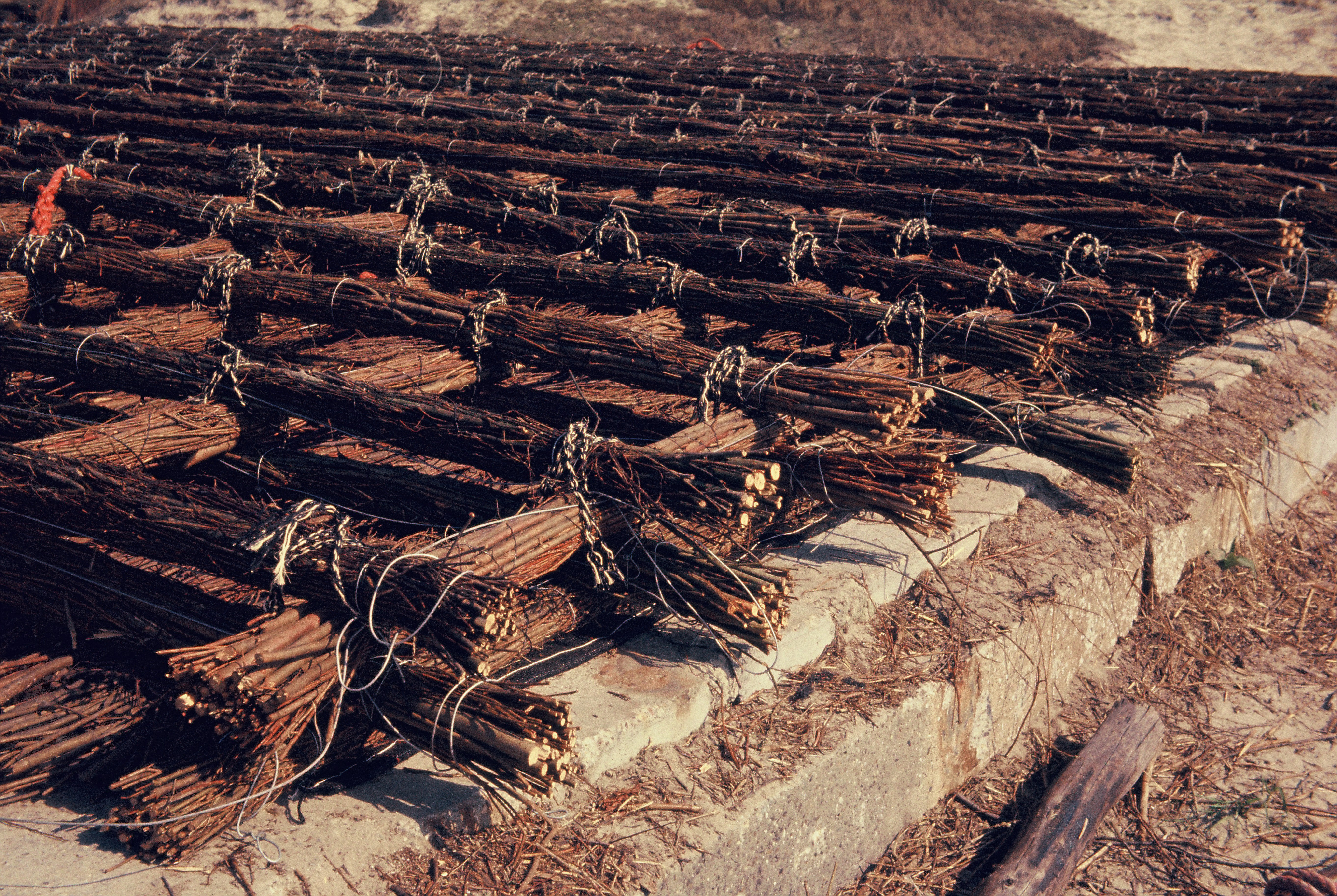 Classic mattress without a geotextile (on the Dutch island of Texel)